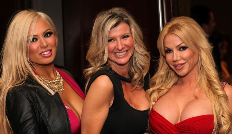 ?, ?, Angie Savage (right) Photos from the 2013 AVN Awards held at the at the Hard Rock Hotel & Casino in Las Vegas. Please provide photographer credit when using, tweeting, etc... Photo by Michael Dorausch This photo is licensed under a Creative Commons license. If you use this photo within the terms of the license or make special arrangements to use the photo, please list the photo credit as "Michael Dorausch" and link the credit to . Thank you to everyone for being so accommodating during the days I took photos, it's much appreciated.